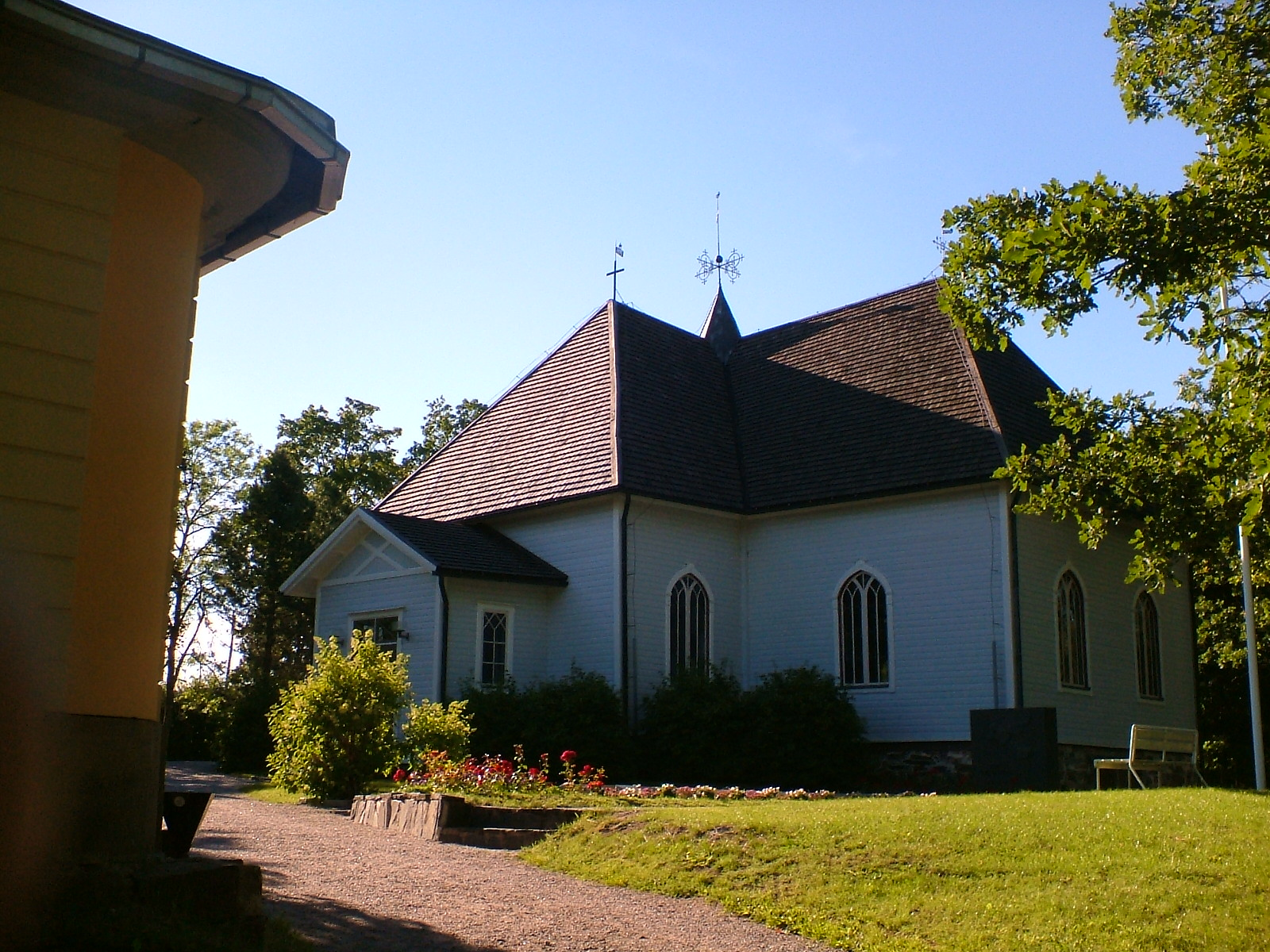 Svartå Church